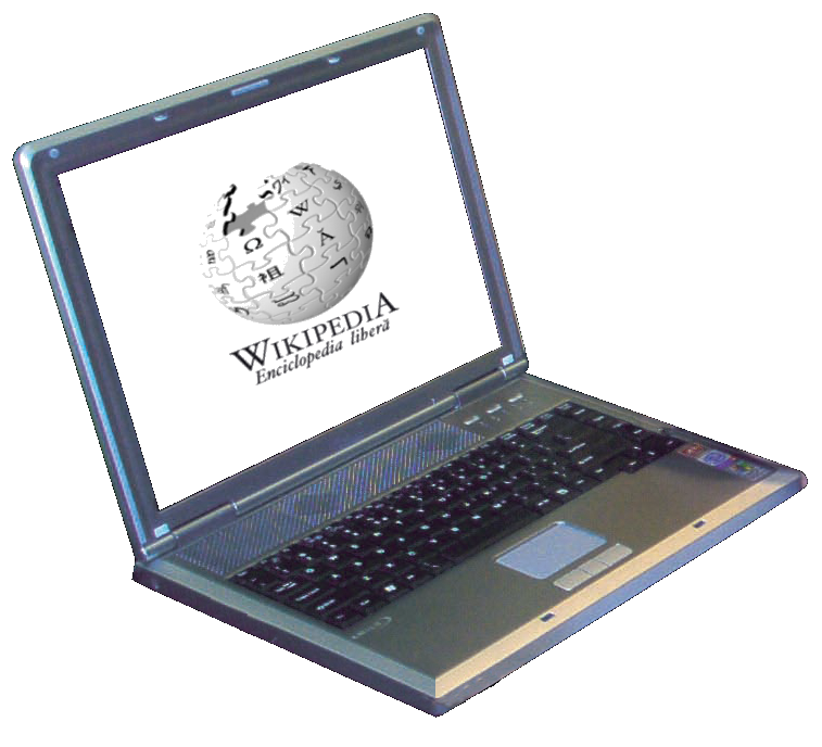 Laptop